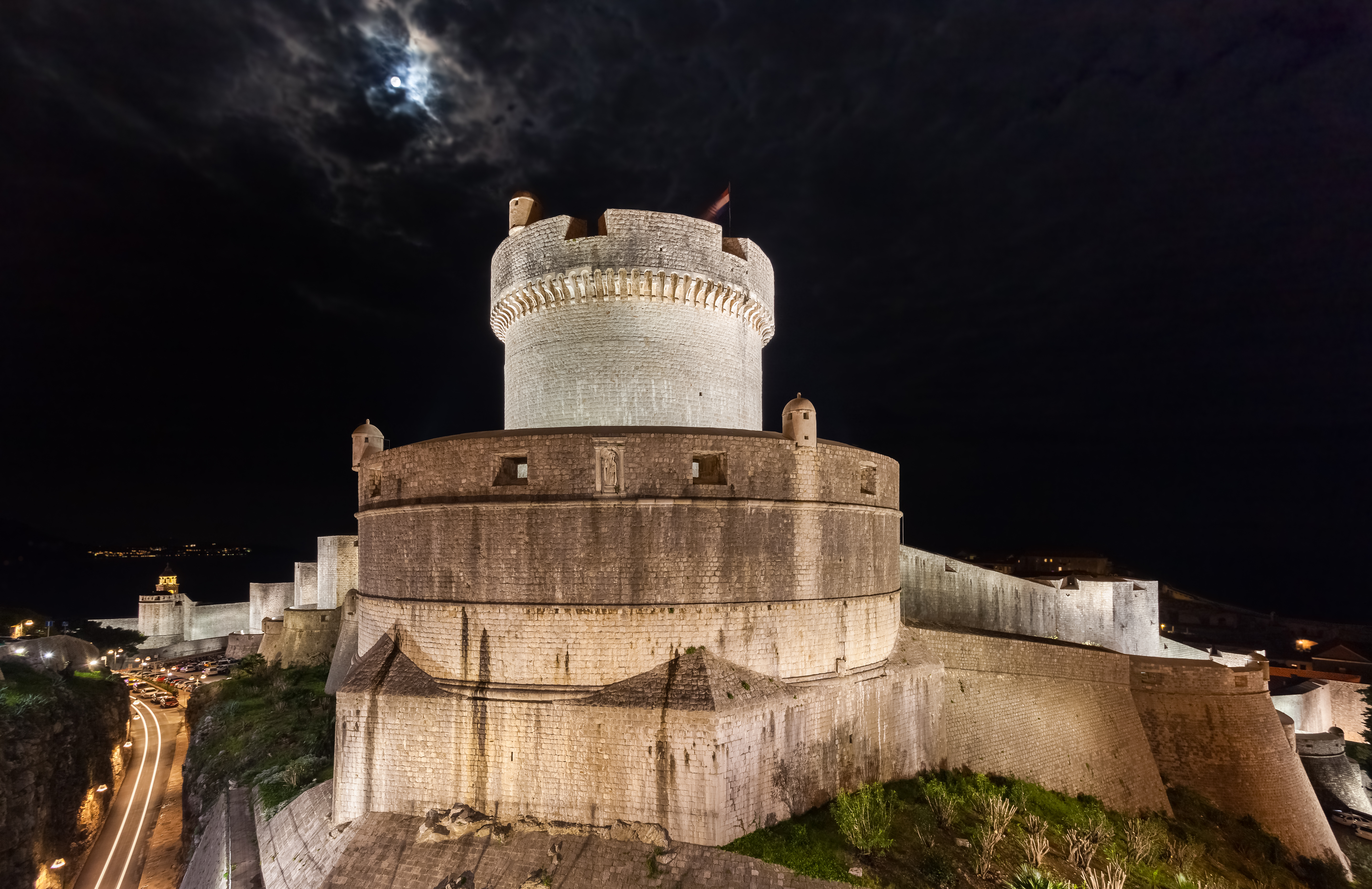 Old city of Dubrovnik, Croatia